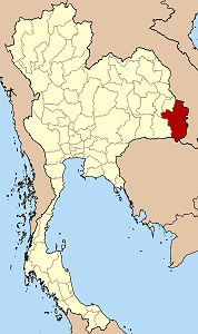 Map of Thailand highlighting Ubon Ratchathani province